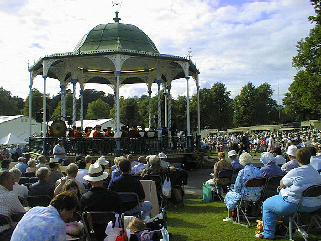 The bandstand, complete with band Part of the entertainment at the annual Flower Show